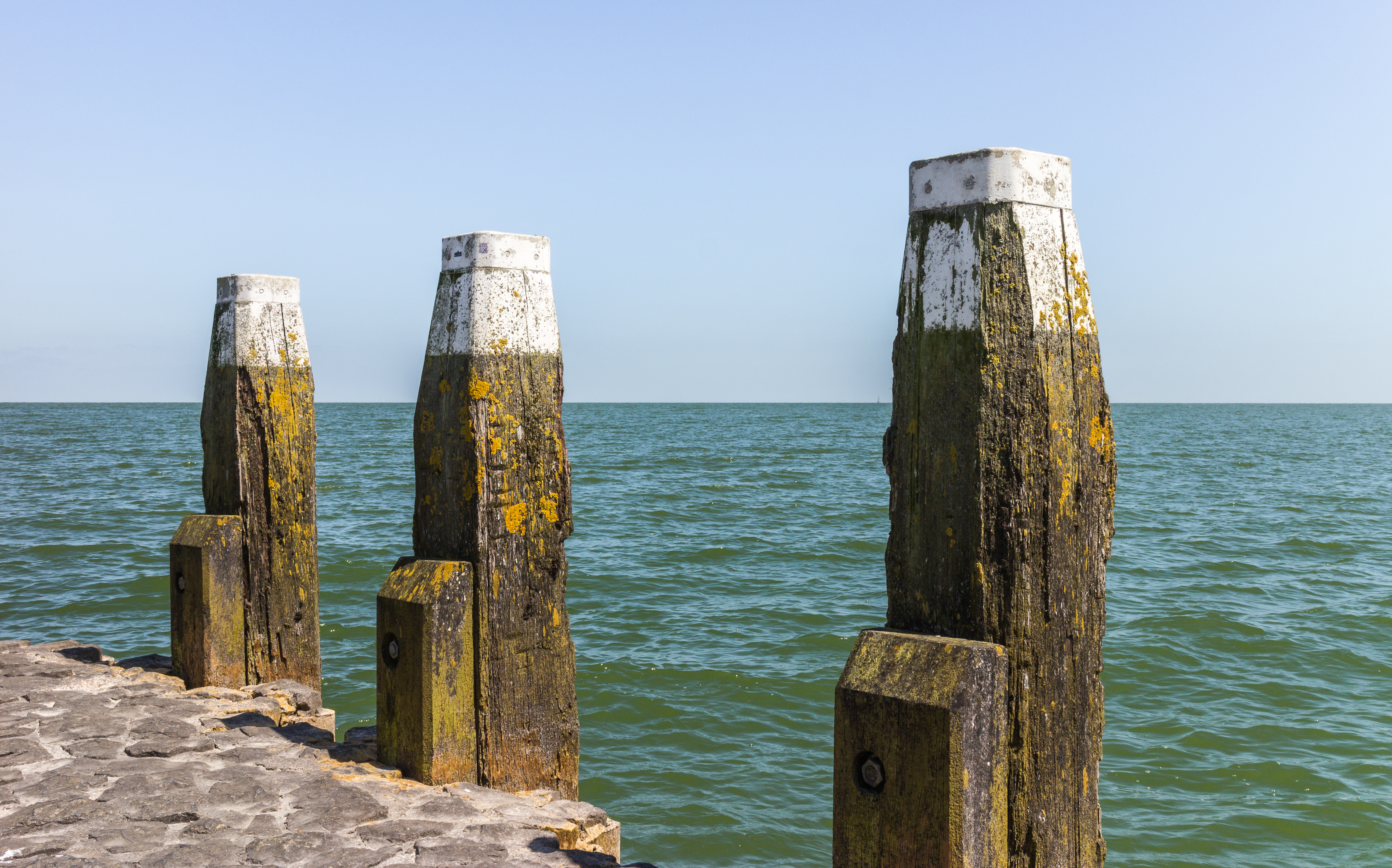 Afsluitdijk Monument and surroundings. Bollards in the IJsselmeer.